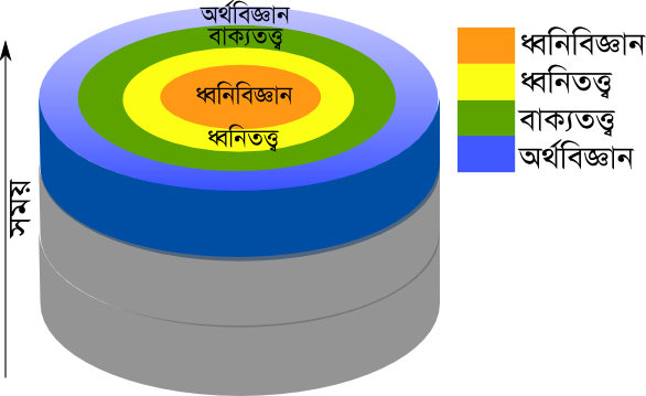 Linguistics layers in Bengali